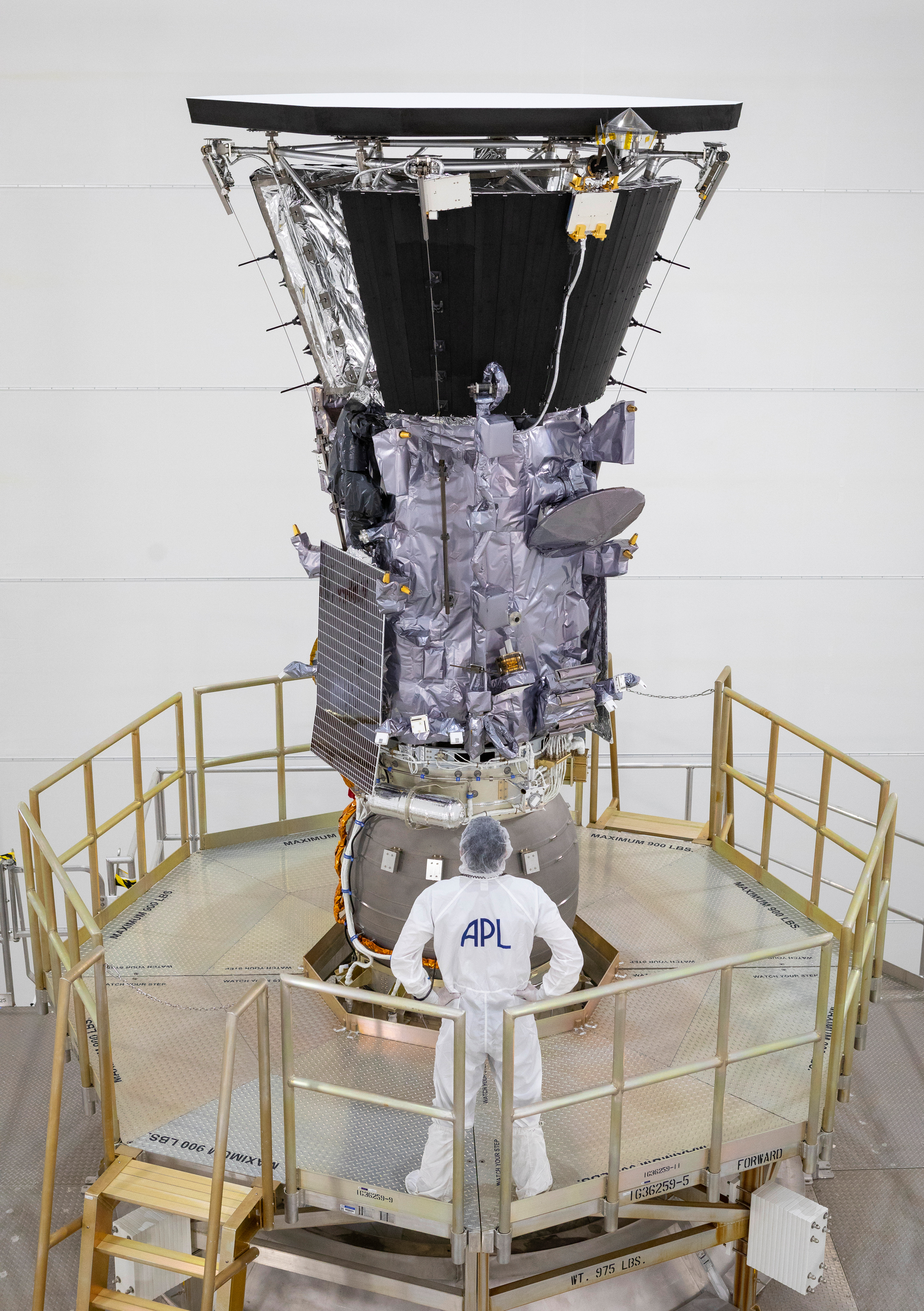 NASA’s Parker Solar Probe is shown here mated to its third stage rocket motor on July 16, 2018, at Astrotech Space Operations in Titusville, Florida. In addition to using the largest operational launch vehicle, the Delta IV Heavy, Parker Solar Probe will use a third stage rocket to gain the speed needed to reach the Sun, which takes 55 times more energy than reaching Mars.